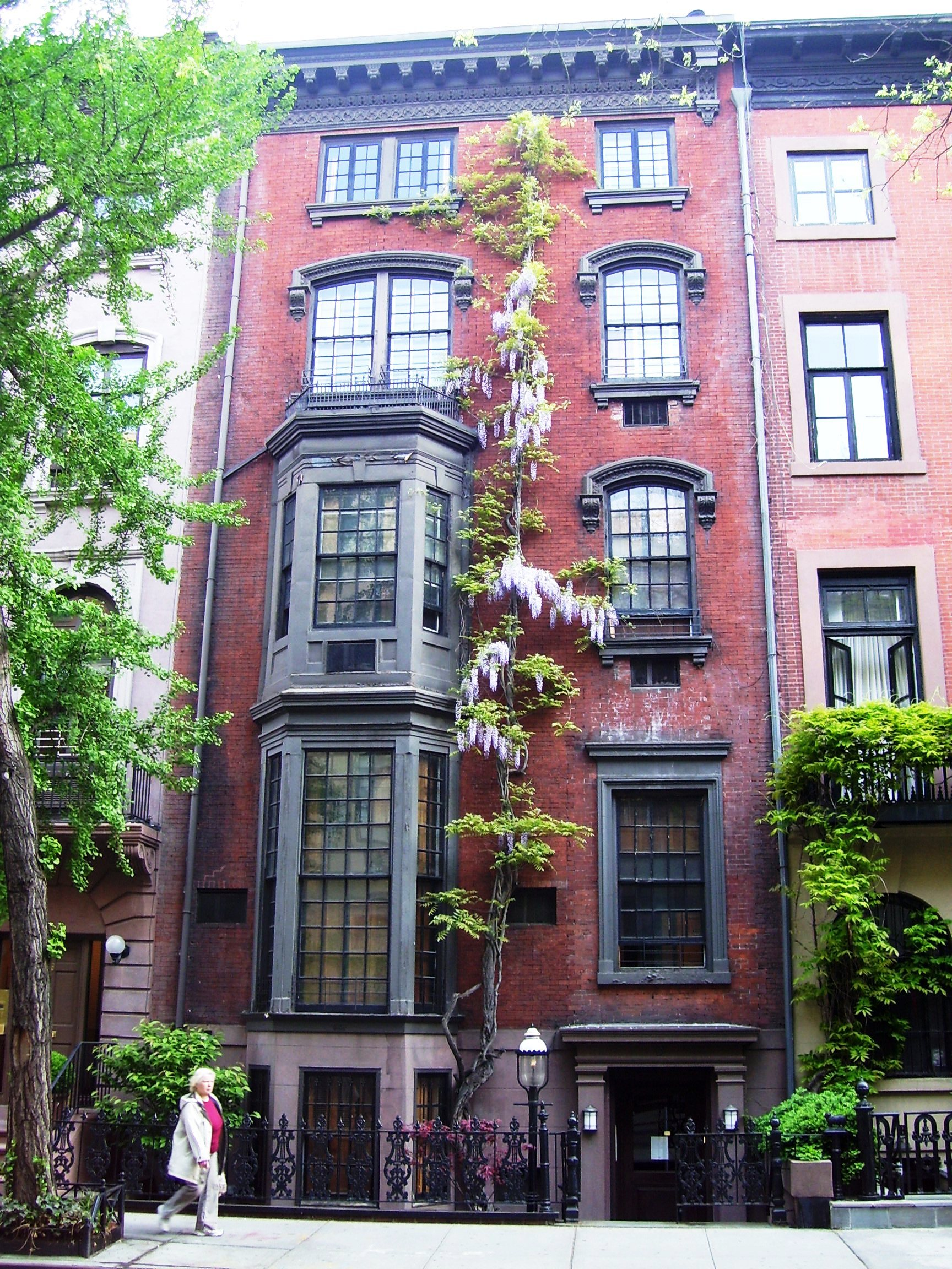 17 West 9th Street between Fifth and Sixth Avenues in the Greenwich Village neighborhood of Manhattan, New York City, is an Italianate town house built in 1854-55. It is located within the Greenwich Village Historic District. In the 1930s the sculptor William Zorach lived here. (Source: "NYCLPC Greenwich Village Historic District Designation Report, volume 1")